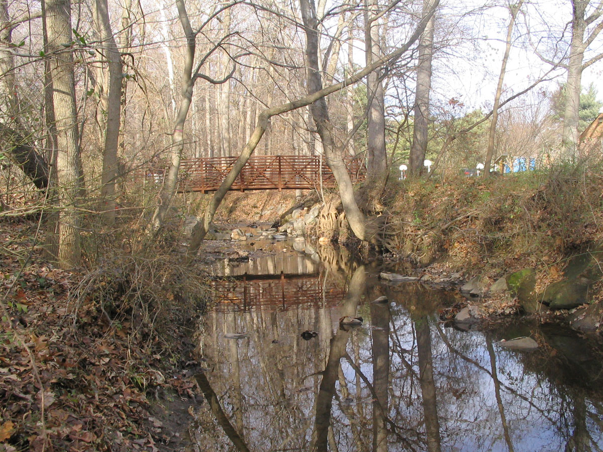 View of Sligo Creek, Silver Spring, Maryland, United States.